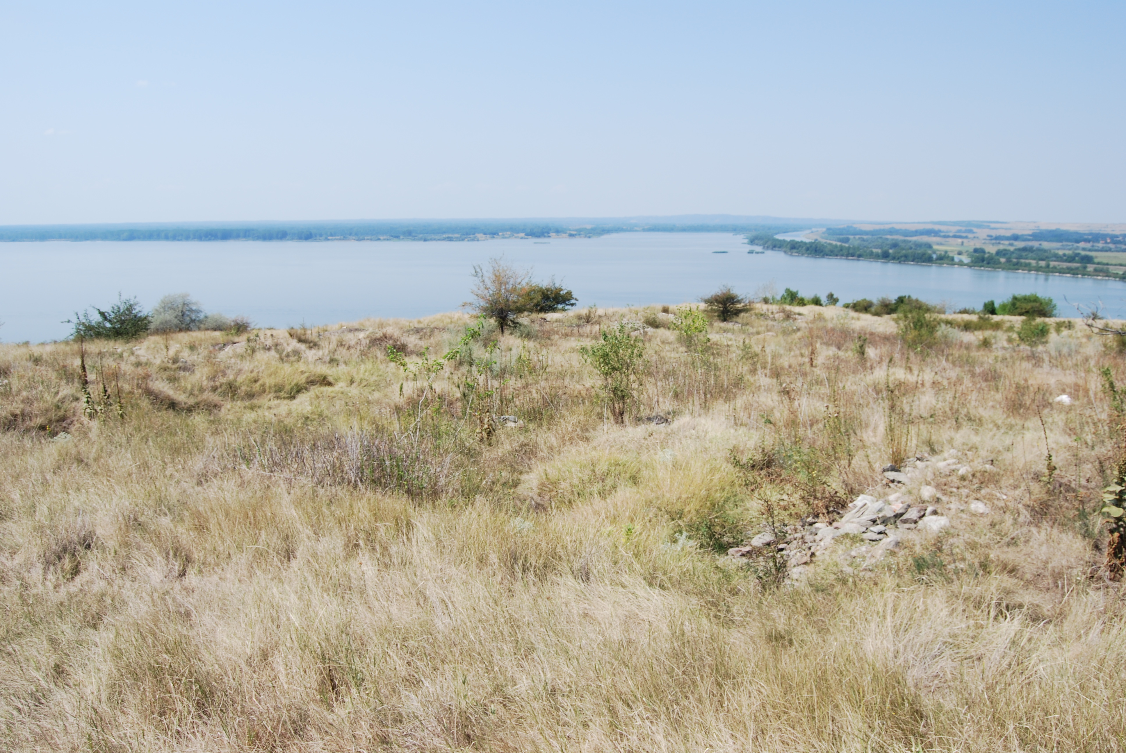 Archeological site Lederata in Veliko Gradište